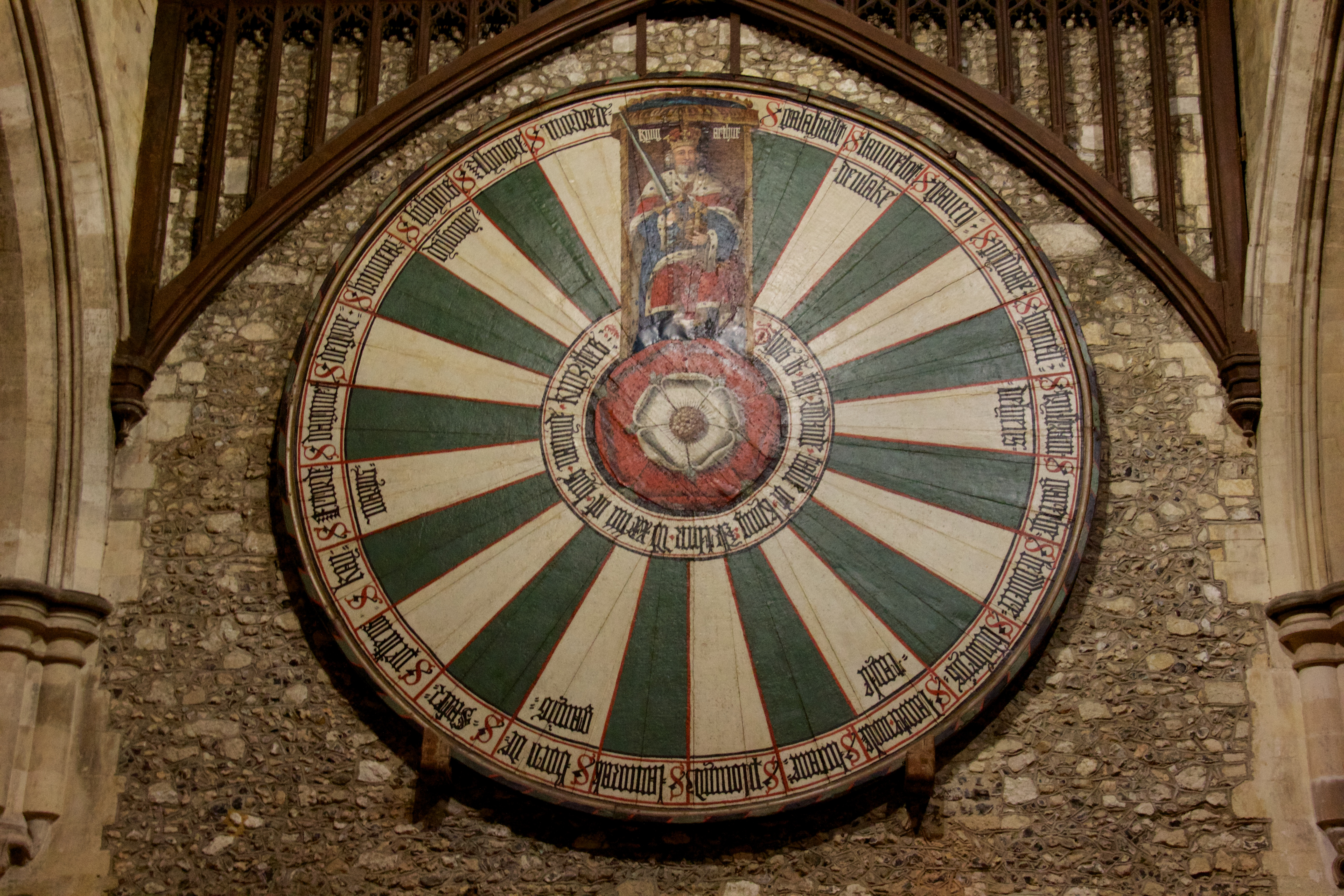 Winchester Round Table. Winchester Castle.